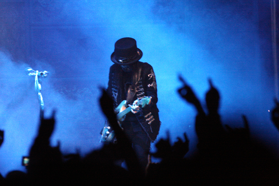 Motley Crue Sydney Entertainment Centre